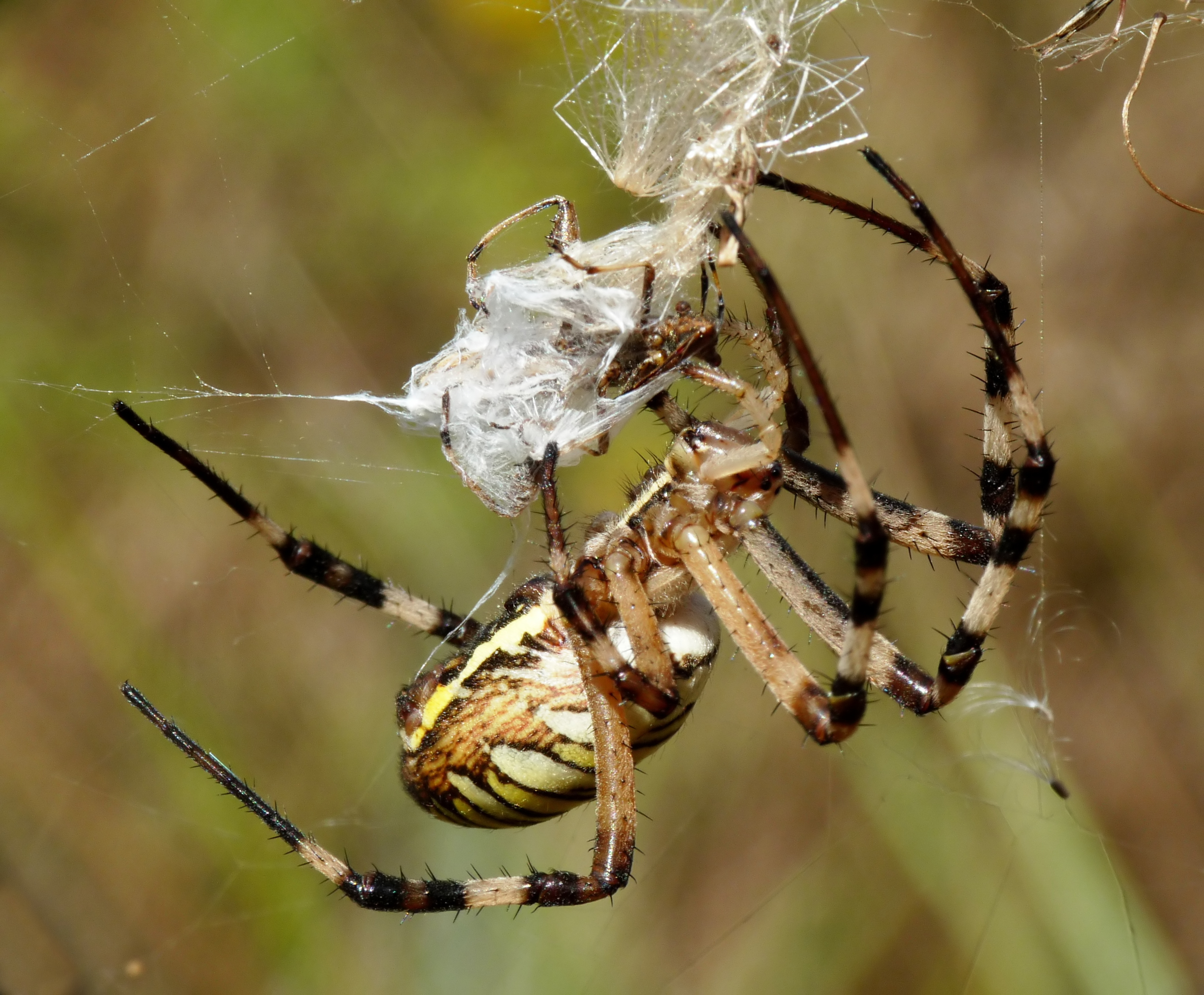 Spider Argiope bruennichi, female, near Livorno, Tuscany, Italy